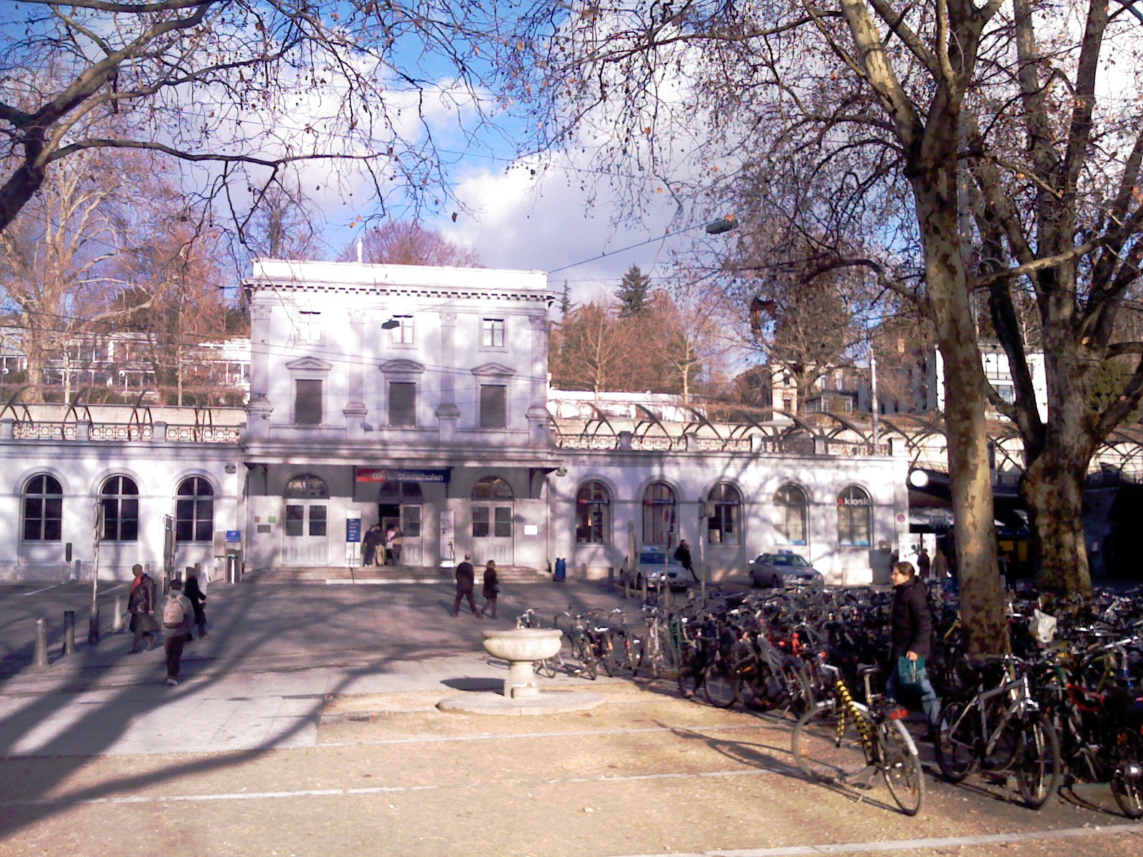 Railway station Zurich Stadelhofen - Stacidomo Zuriko-Stadelhofen